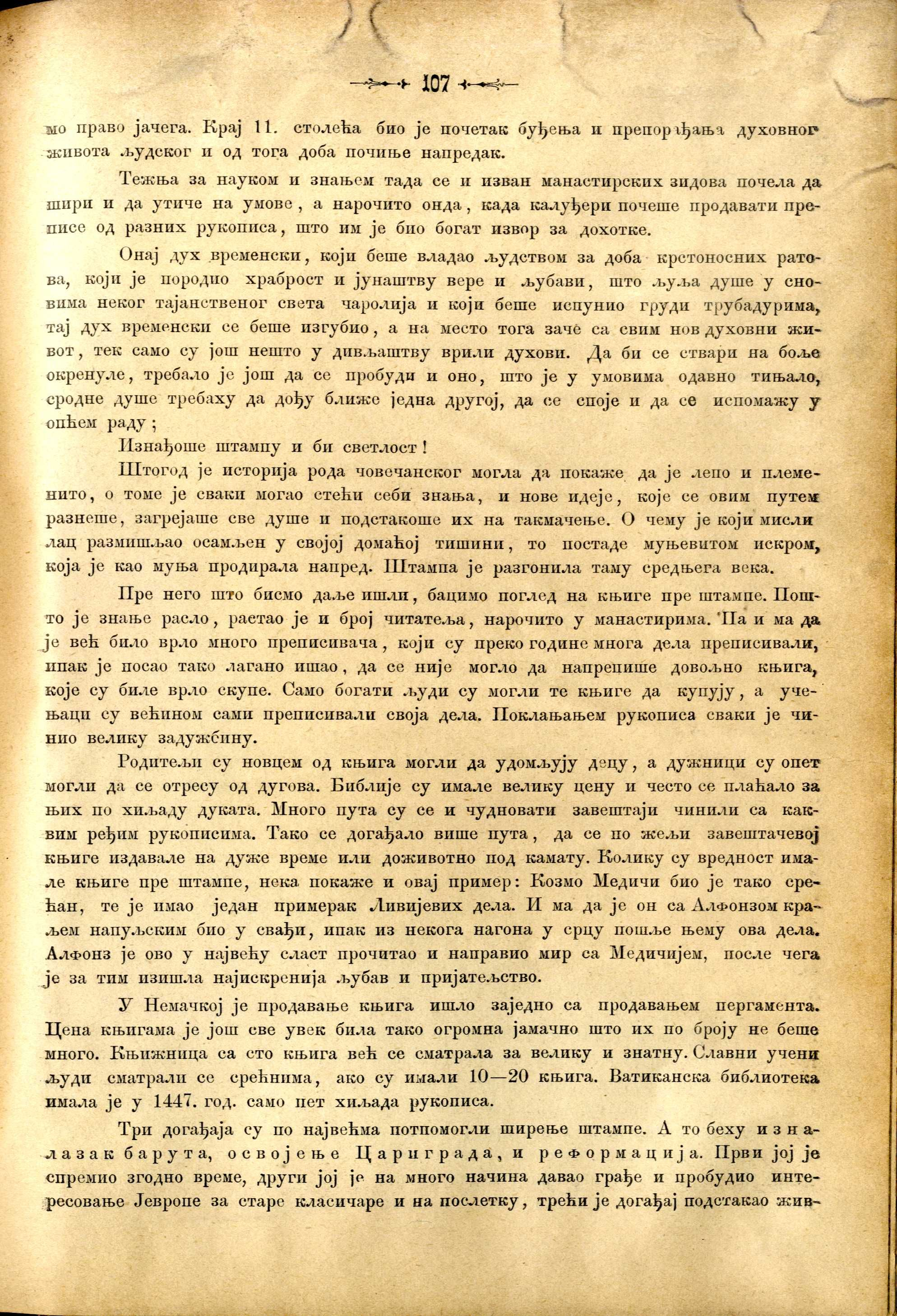 Posestrima, journal from Serbia, 1890